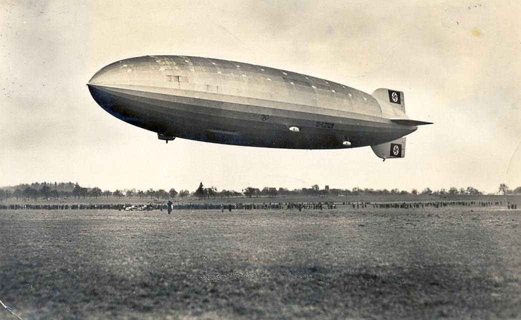 The LZ 129 Hindenburg takes off on its first flight on March 4, 1936.